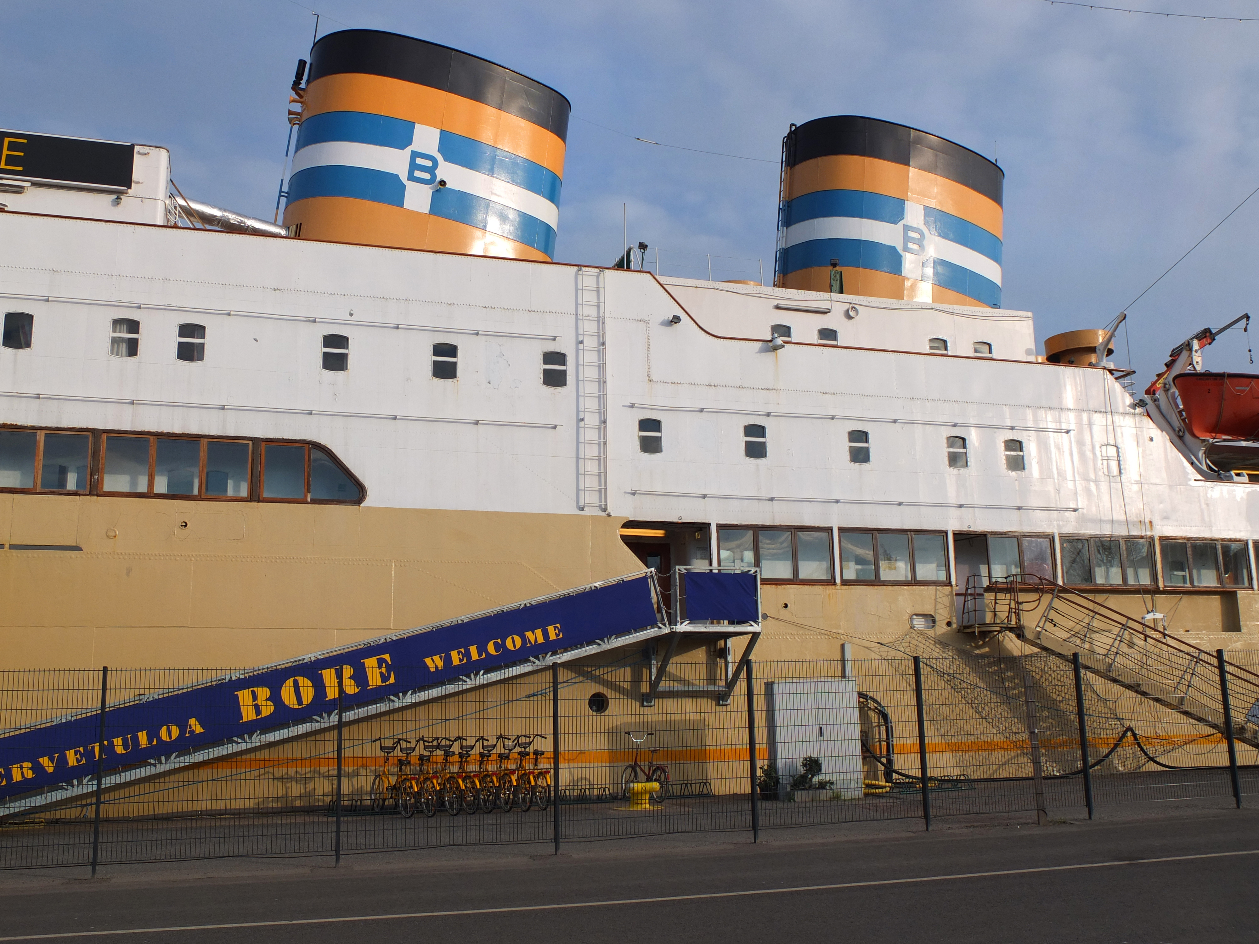 Old passenger ship Bore on Turku riverside, now used as a tourist hostel.